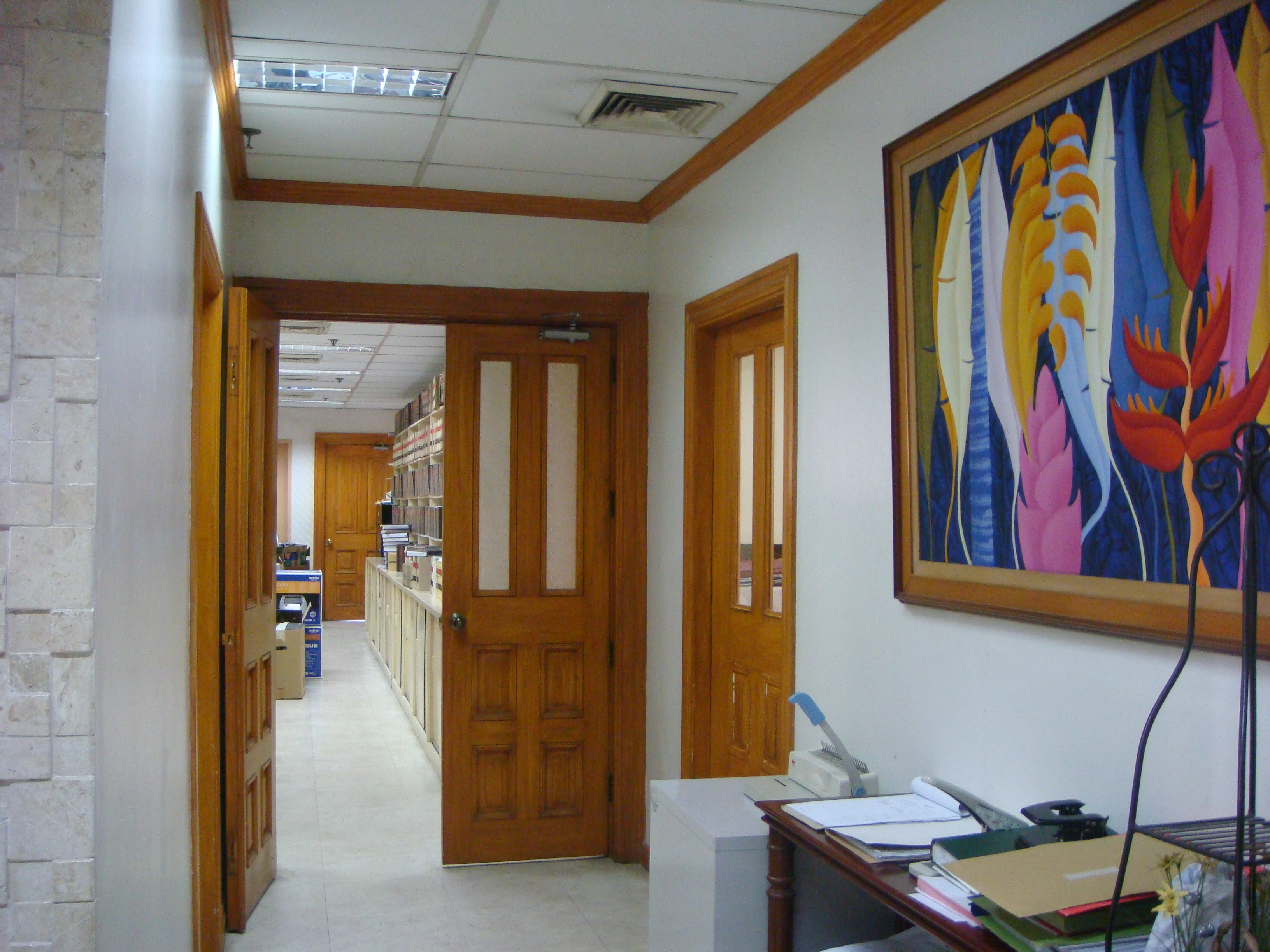 Judicial Chamber of SC Associate Justice Presbitero Velasco, Jr.